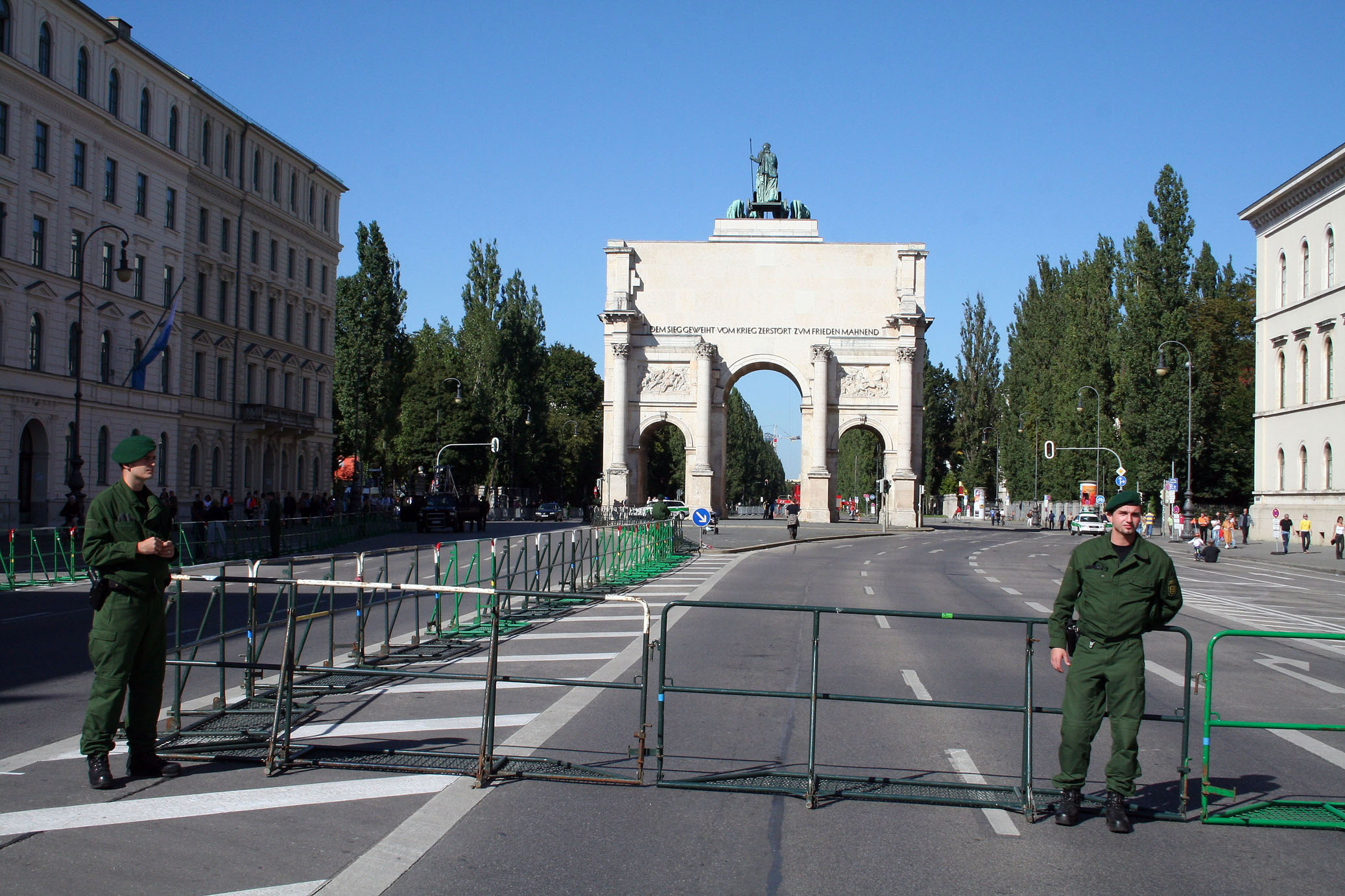 Siegestor in Munich, Germany